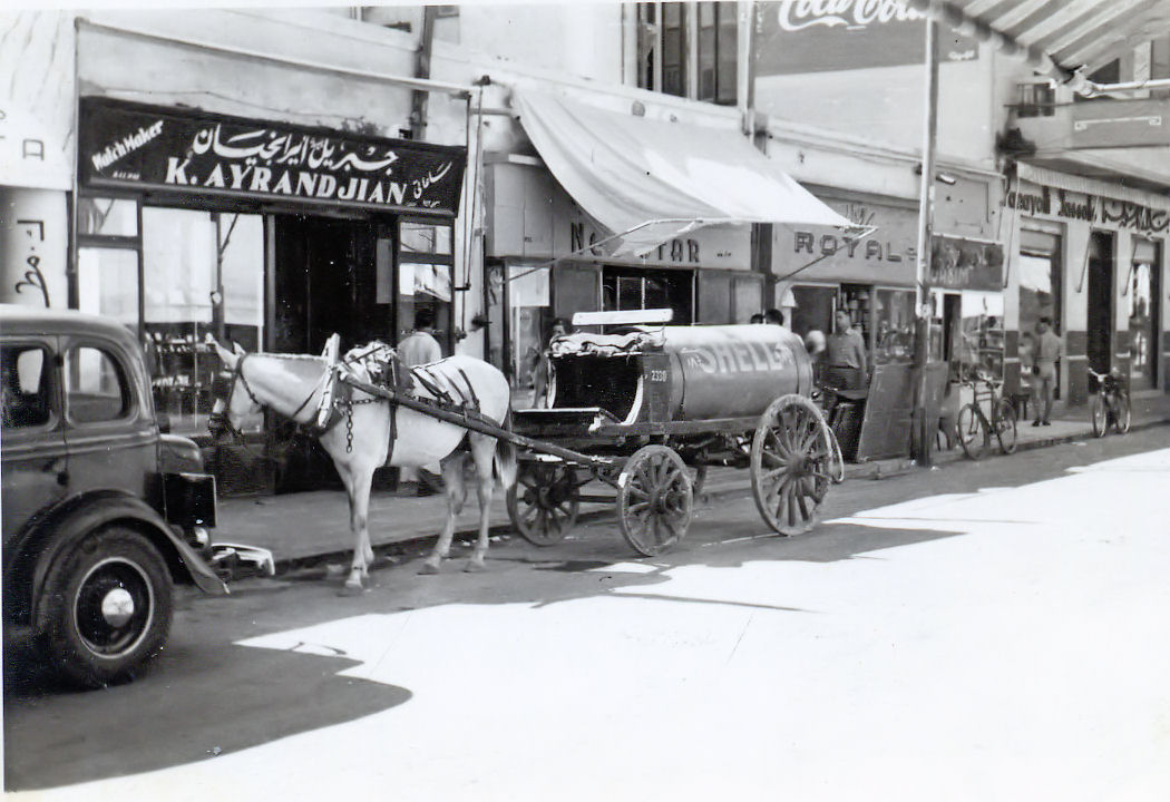 This was much more environmentally friendly than the great tankers which damage the roads today.